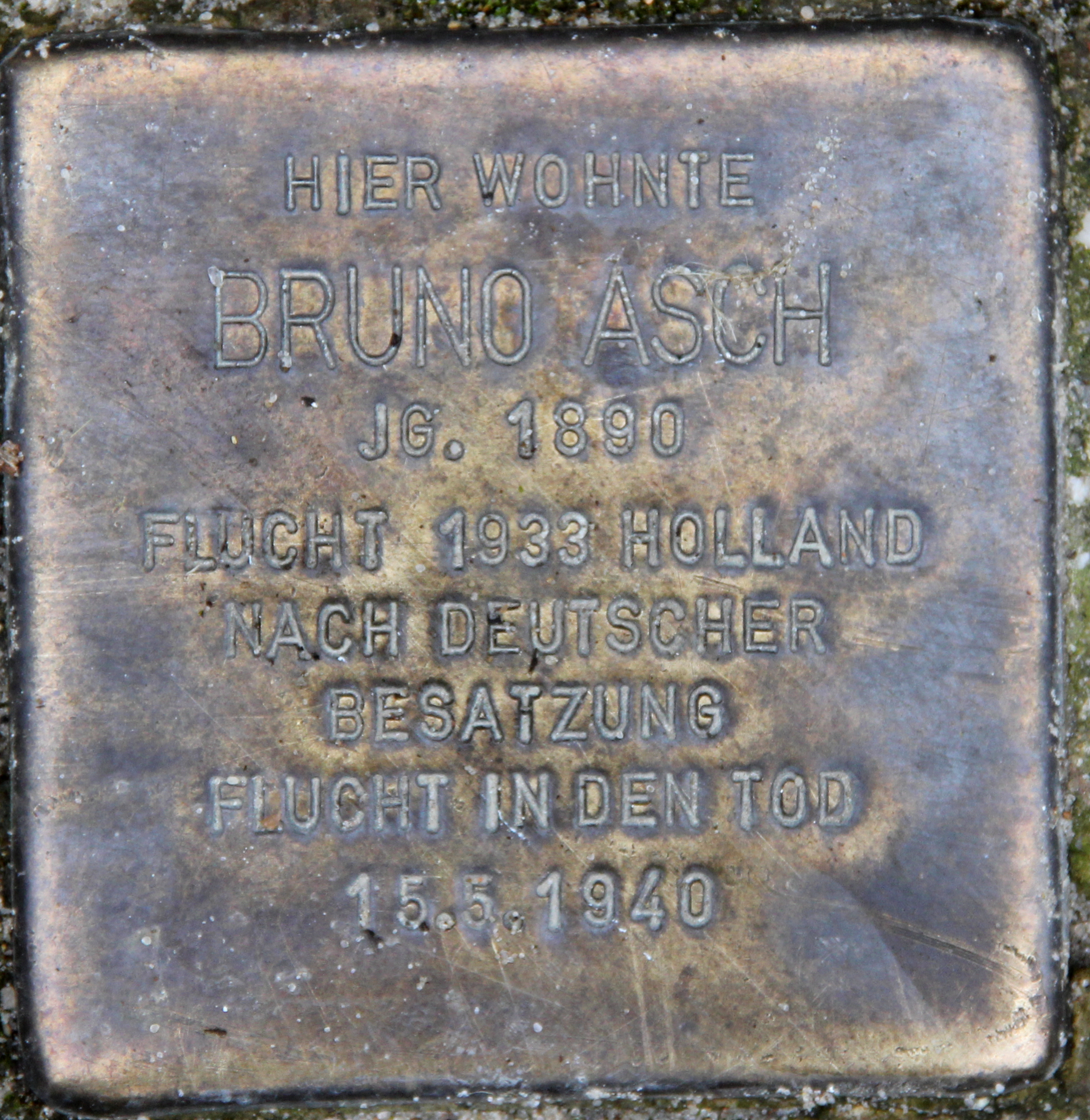 "Stolperstein" (stumbling block), Bruno Asch, Breisacher Straße 19, Berlin-Dahlem, Germany Koordinate:52°26′41″N 13°16′45″E / 52.44472°N 13.27917°E